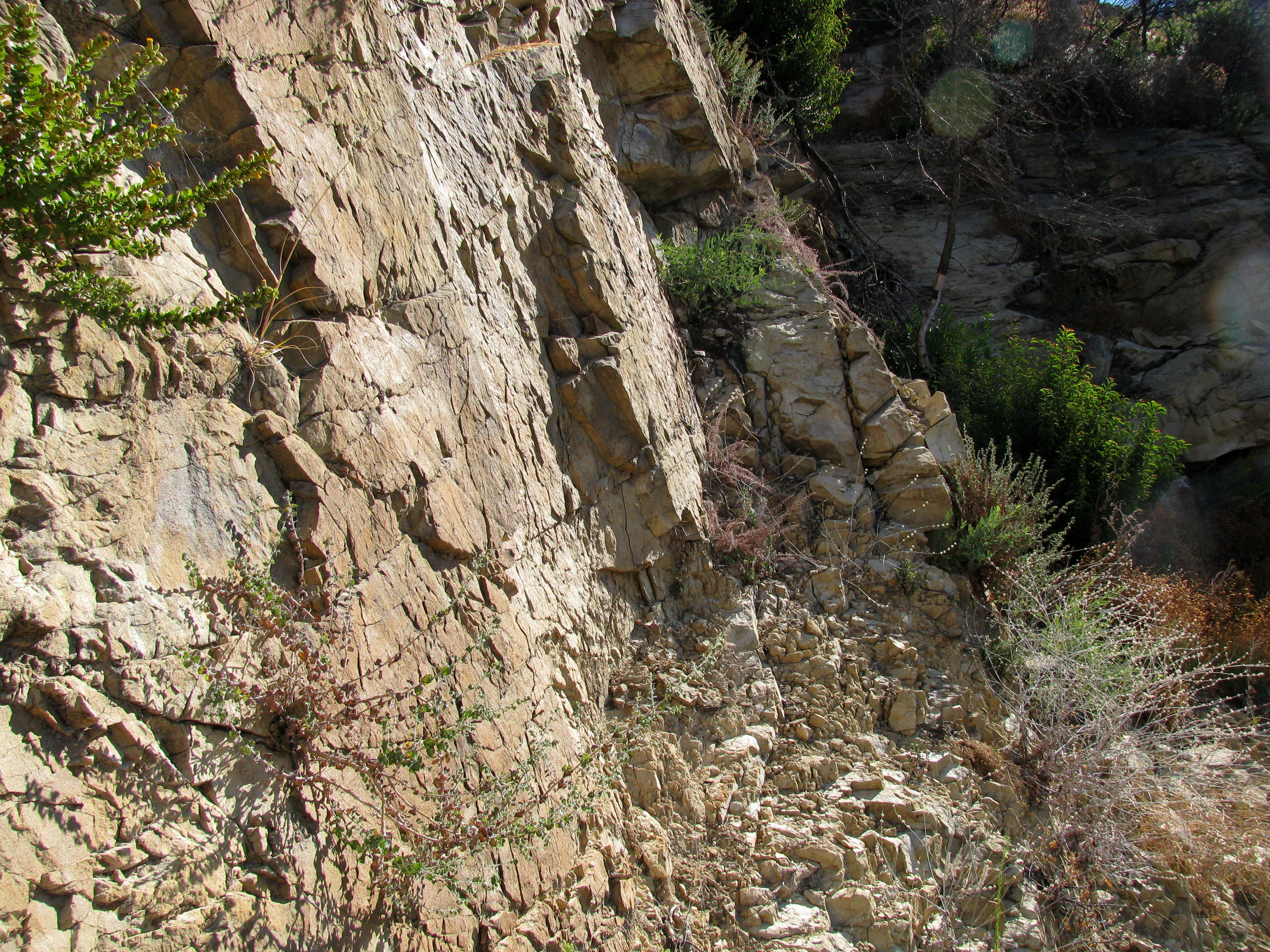 Matilija Sandstone, with beds almost vertical; Gibraltar Road, near Gibraltar Rock, above Santa Barbara, CA, 9/26/10, photo by self